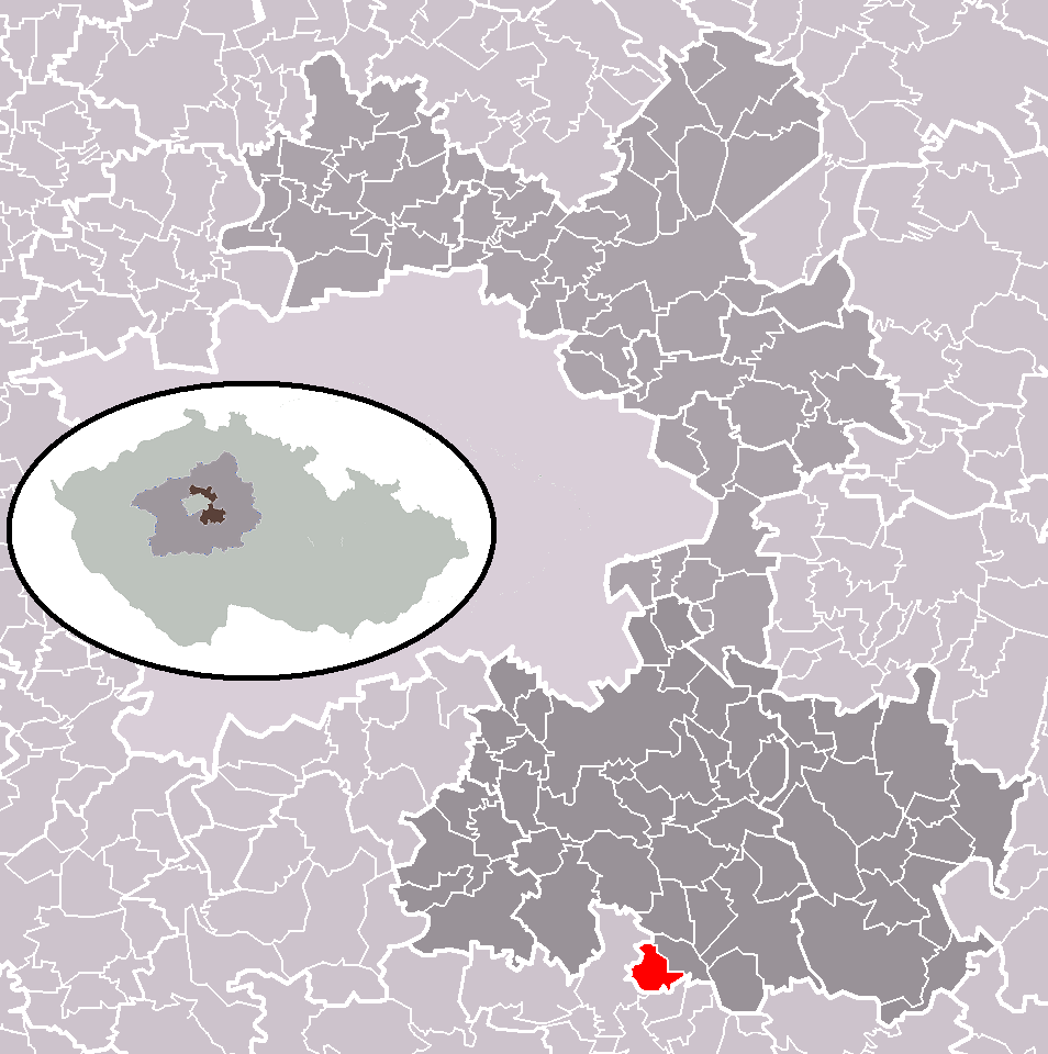 Location of Pětihosty municipality within Prague-East District and administrative area of Říčany as a Municipality with Extended Competence.